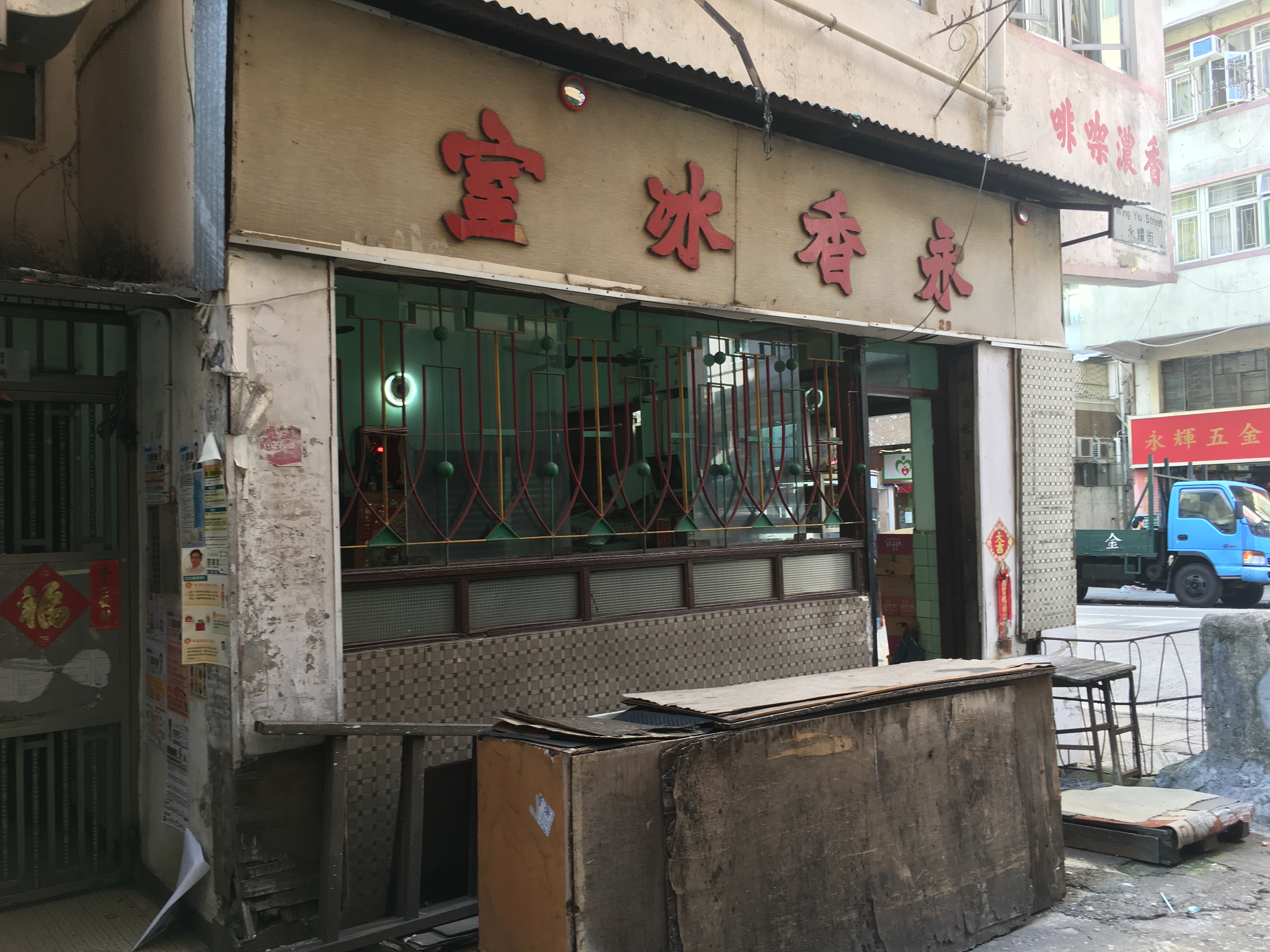 永香冰室, an old Hong Kong cha chaan teng (tea restaurant) opened in 1959. The photo was taken in 2018 and the decorations were still kept intact since the 1950s.